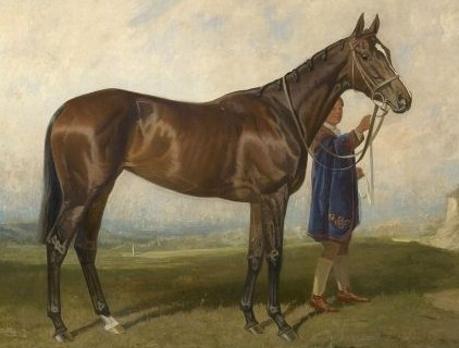 Painting of the British racehorse Scuttle by the artist James Lynwood Palmer. The horse is facing right, wearing a birdle and eins and is accompanied by a groom. As the horse is in training the painting can be no later than 1928.